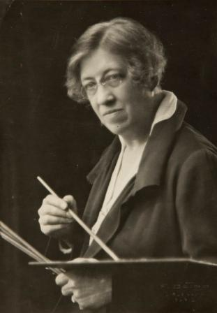 Agnes Goodsir selfportrait